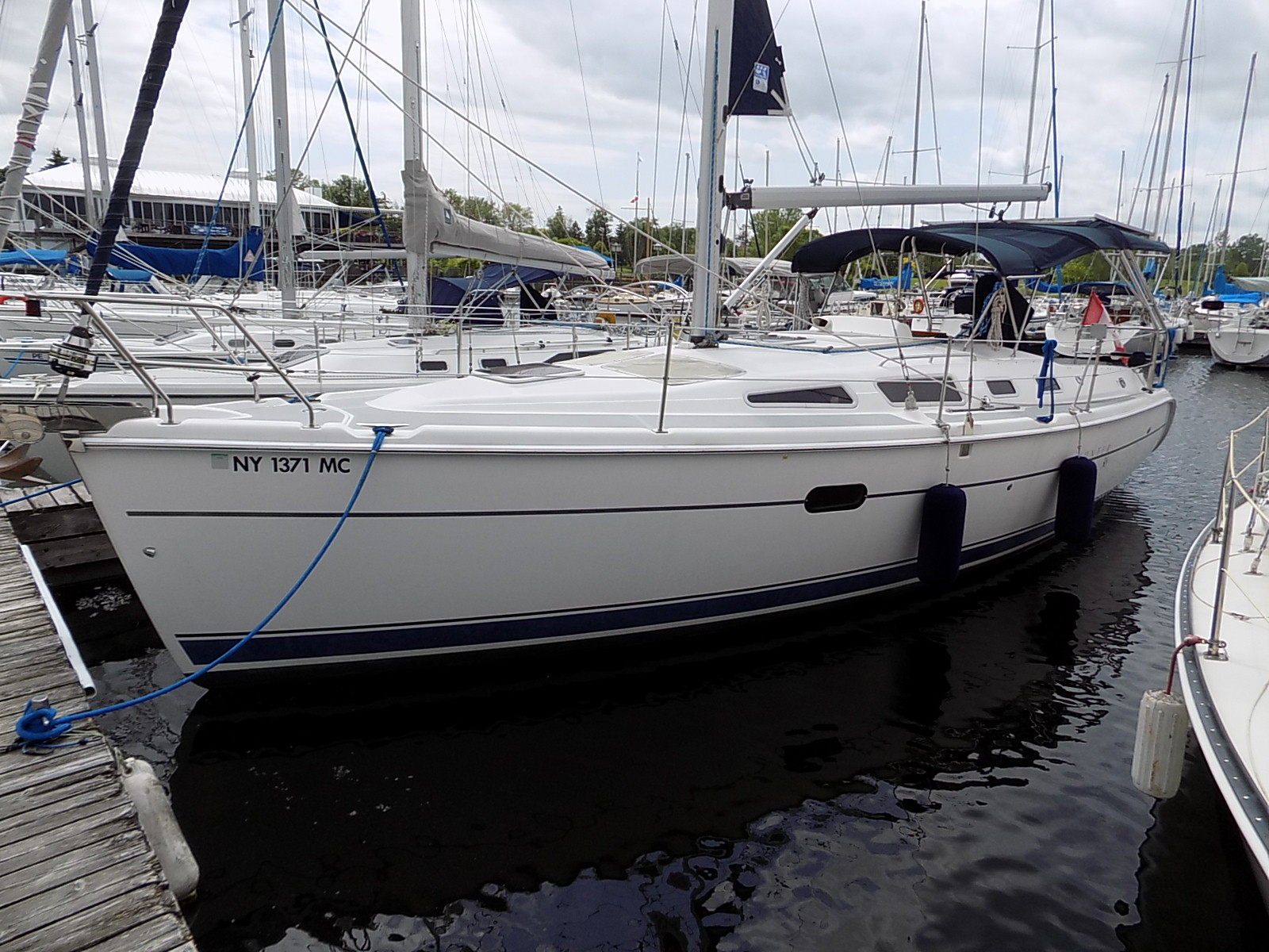 A Hunter 36-2 sailboat named Bliss.